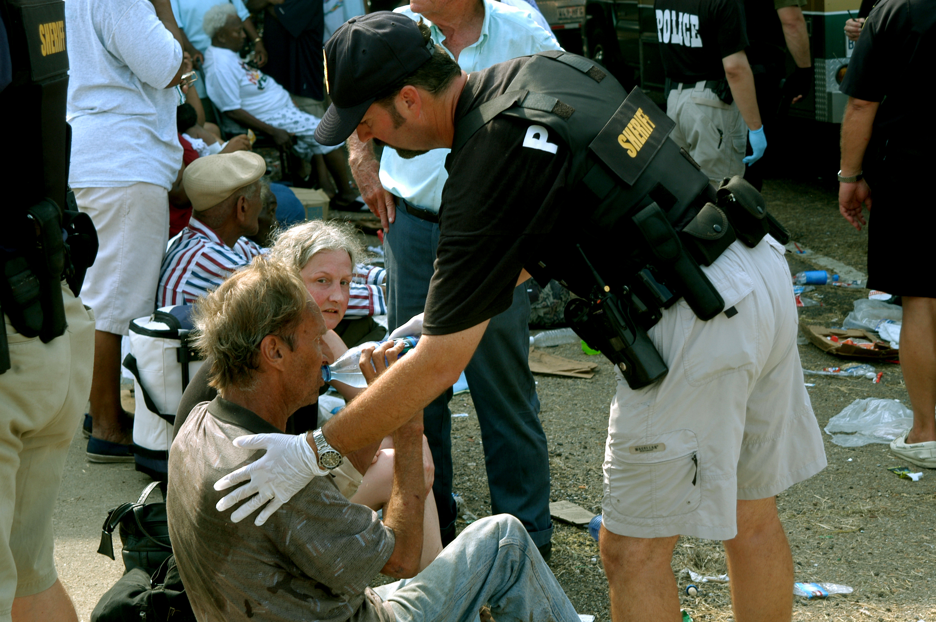 New Orleans, La, August 31, 2005 -- A sheriff's deputy helps an elderly man, too weak to lift his bottle of water, take a drink. Many elderly people were affected by Hurricane Katrina which struck the area on August 29. New Orleans is being evacuated following hurricane Katrina and rising flood waters. Photo by Win Henderson/FEMA photo.